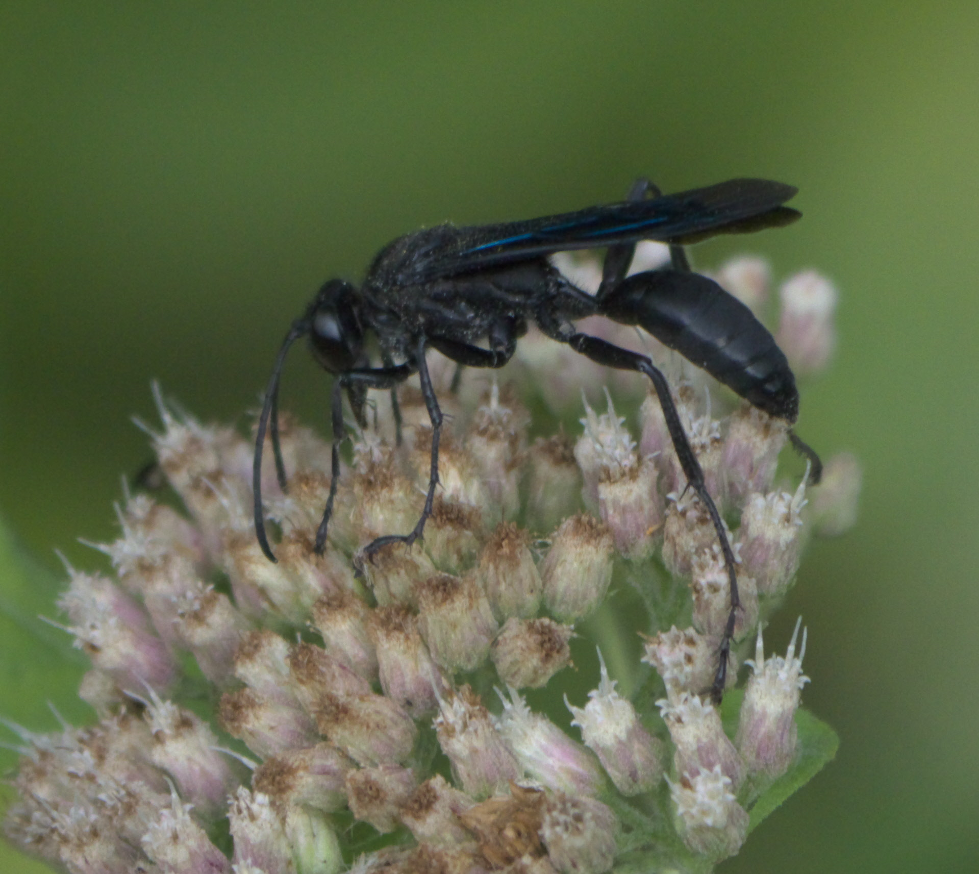 Sphex pensylvanicus, great black wasp, ID Confidence: 75